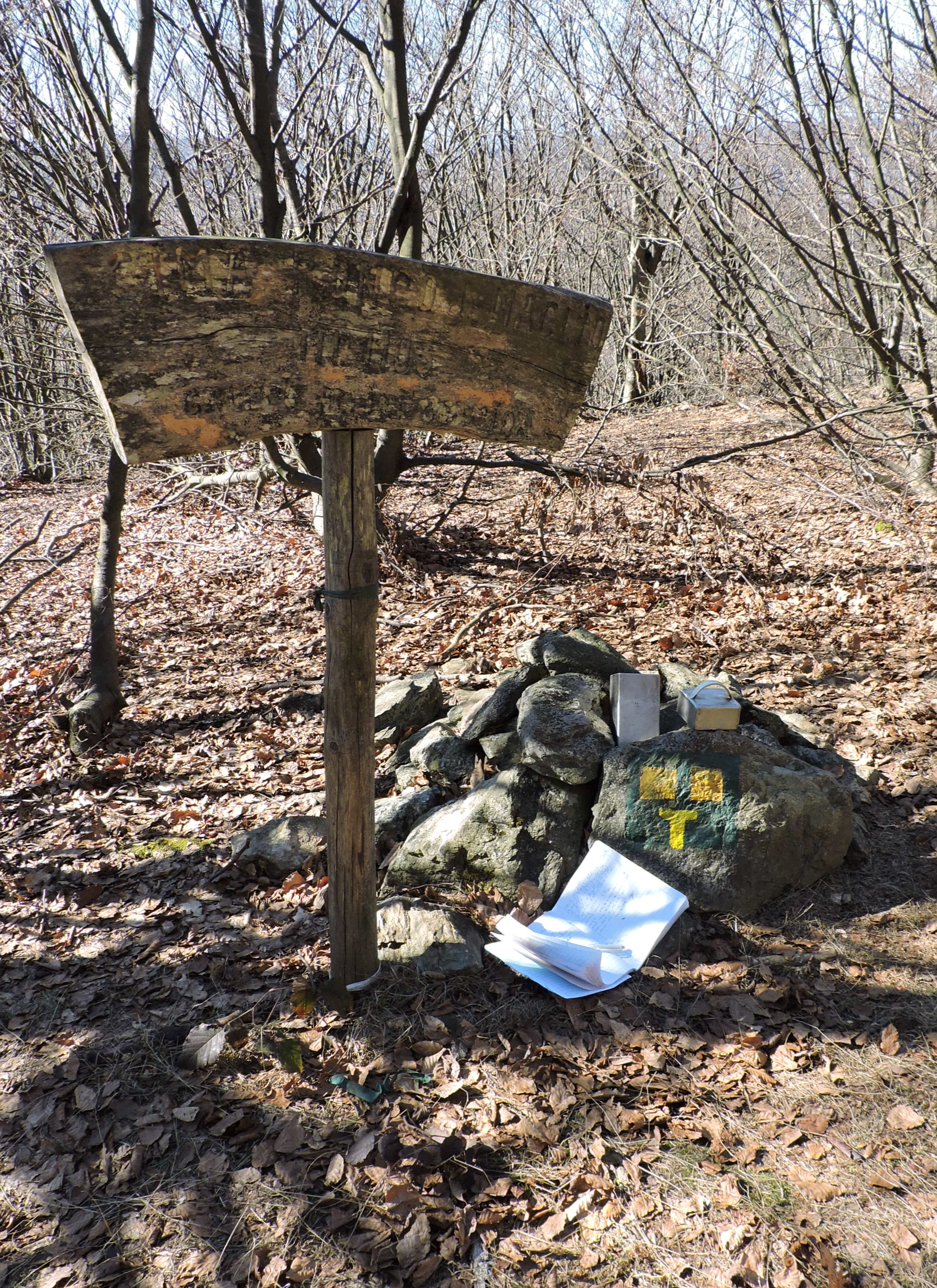 Cime di Ronco di Maglio (Ligurian Alps, Italy): summit register